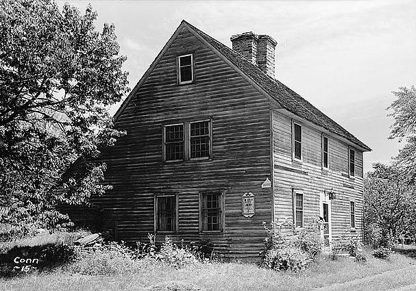 The Acadian House — Northwest View. 1936 WPA Project photograph from the HABS—Historic American Buildings Survey of Connecticut.